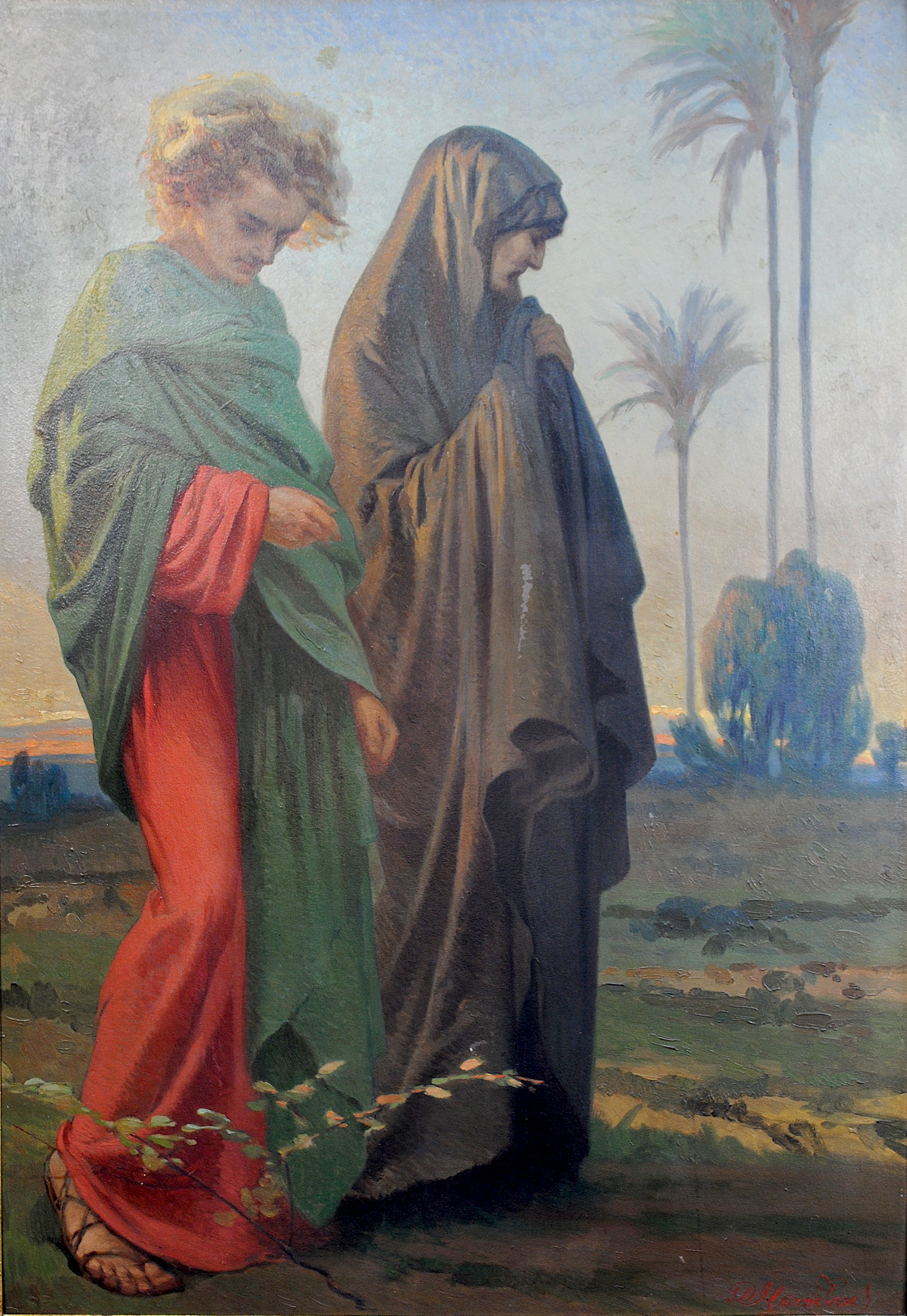 Biskinis Dimitrios, Oil on canvas, 97 x 68 cm, Private Collection